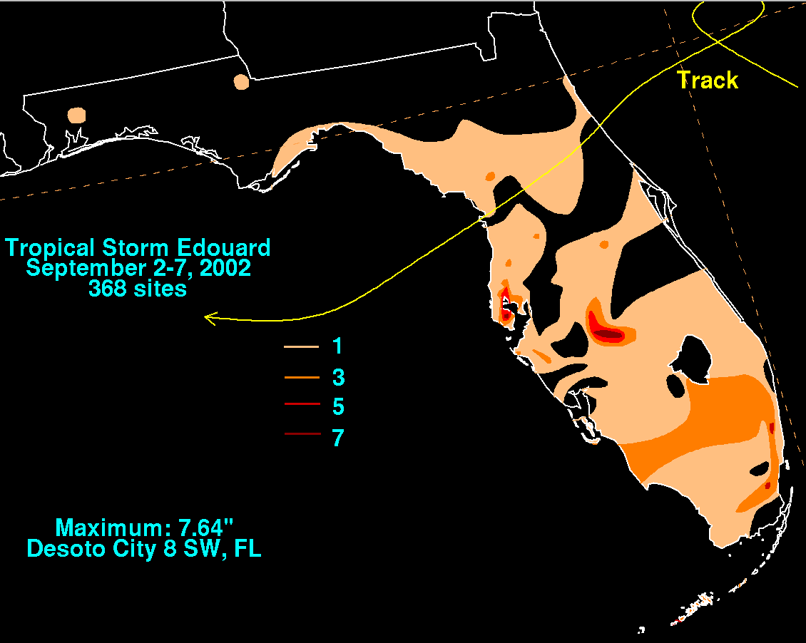 Storm total rainfall map of Tropical Storm Edouard during September 2002.